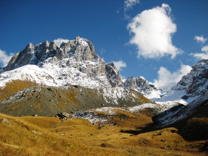 Chaukhi area, Khevi, Georgia